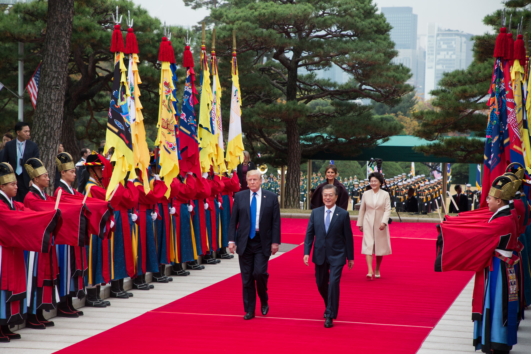 President Donald J. Trump and First Lady Melania Trump visit South Korea | November 7, 2017 (Official White House Photo by Shealah Craighead)